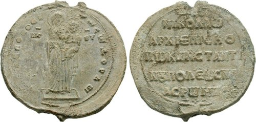 Nicholas II Chrysoberges. Patriarch of Constantinople, 979-991. PB Seal (44mm, 7.45 g, 12h). +QKEROHQEI TwCwDOVLw, Theotokos Hodeghetria standing facing on pedestal, holding child Christ in left arm; MP QV across field / NIKOLAw/ ARCIEPICKO/Pw KwNCTANTI/N(OY)POLEwC NE/AC RwMHC in five lines; ornaments above and below. BLS I -; DOCBS -; Seyrig -; Vatican 153; Orghidan -; Jordanov -. VF, a little dusty, gray patina.